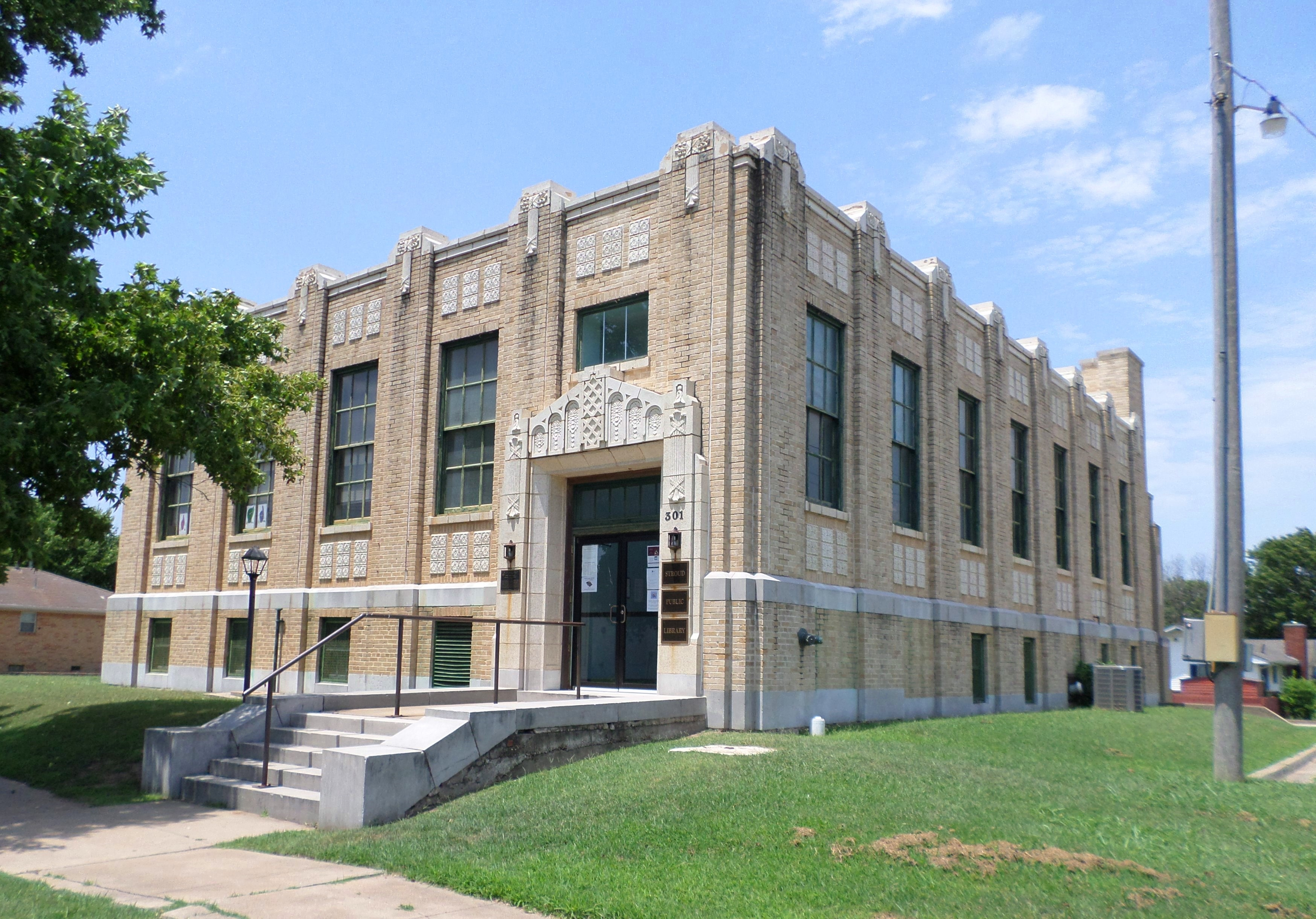 Stroud Public Library, formerly the Southwestern Bell Telephone Building, located at 301 W. 7th St., Stroud, OK. The building is listed on the National Register of Historic Places.